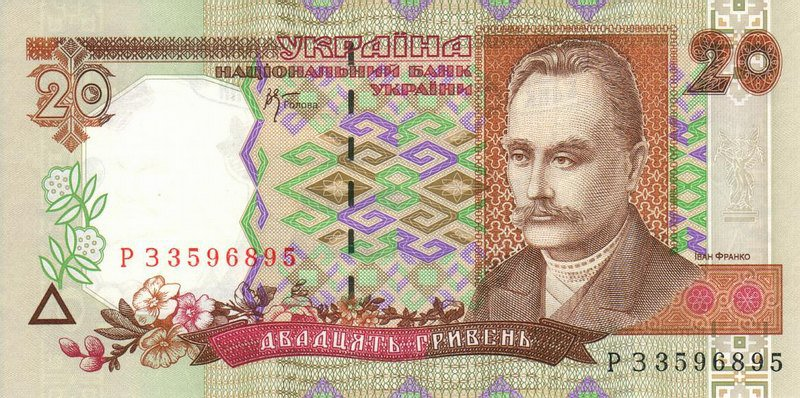 20 Hryvnia banknote (Ukraine), 2000, front